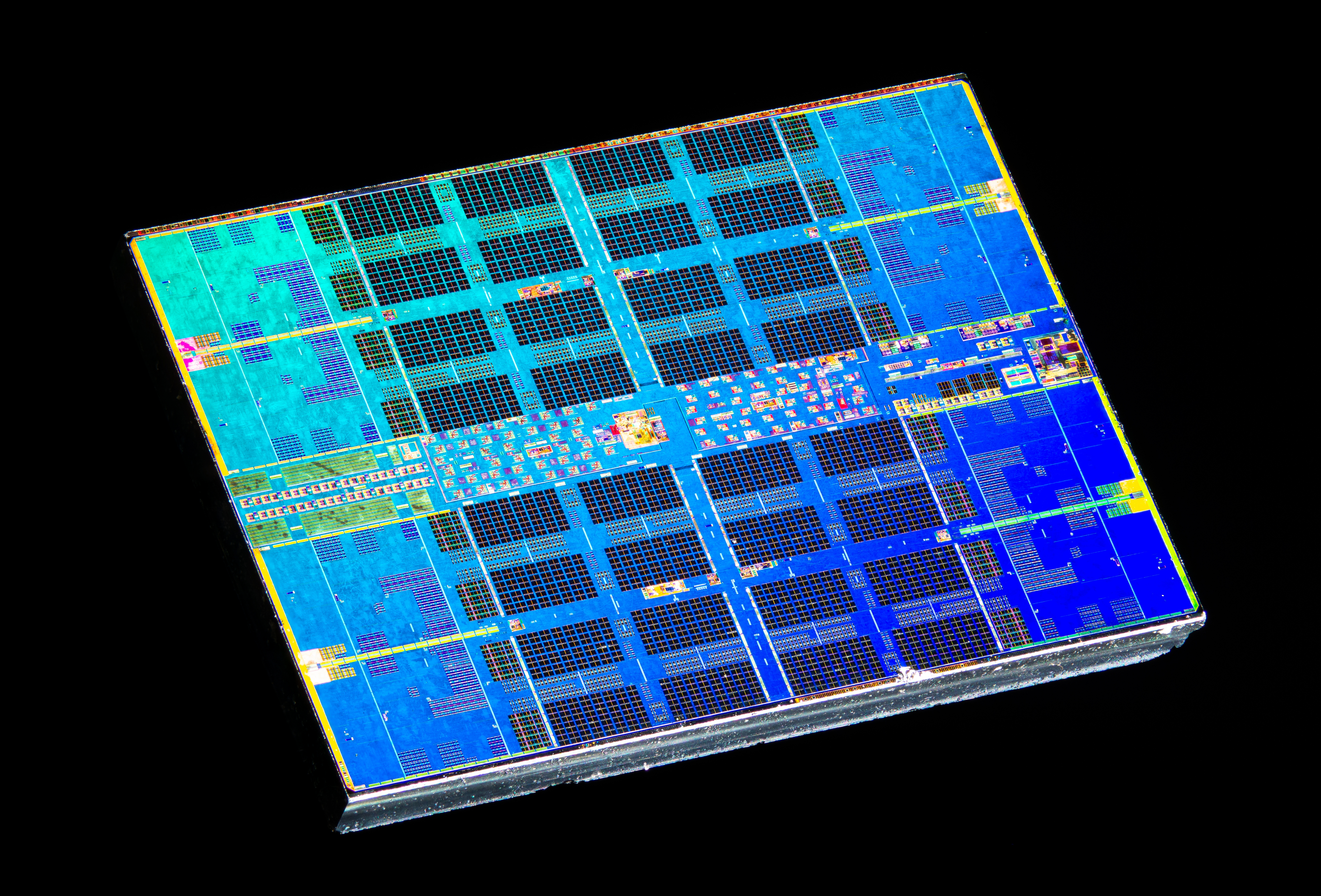 Zen2 Matisse Ryzen 7nm Core Die shot